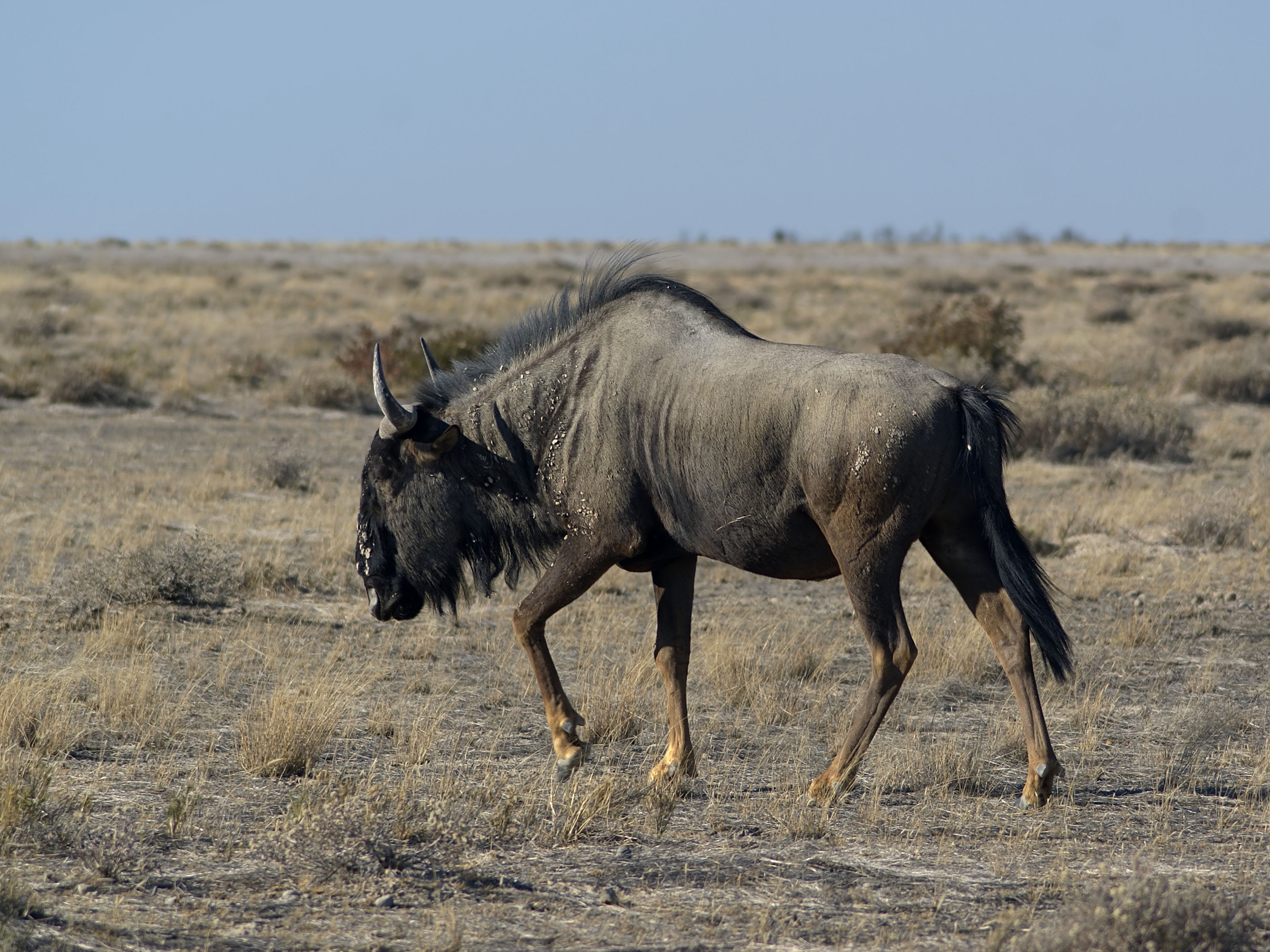 Blue Wildebeest north of Okaukuejo, Etosha National Park, Namibia